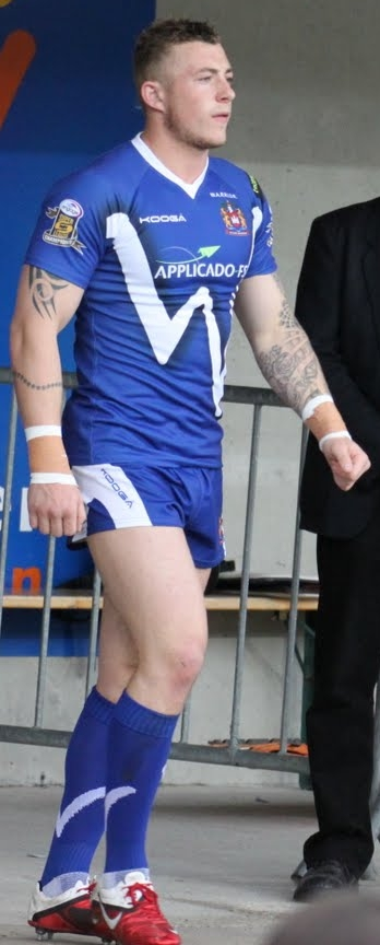 Josh Charnley playing for the Wigan Warriors at the Stade Yves-du-Manoir in Montpellier